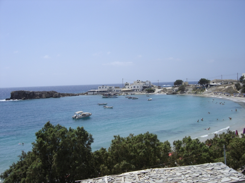 Lefkos Bay, Island of Karpathos, Greece